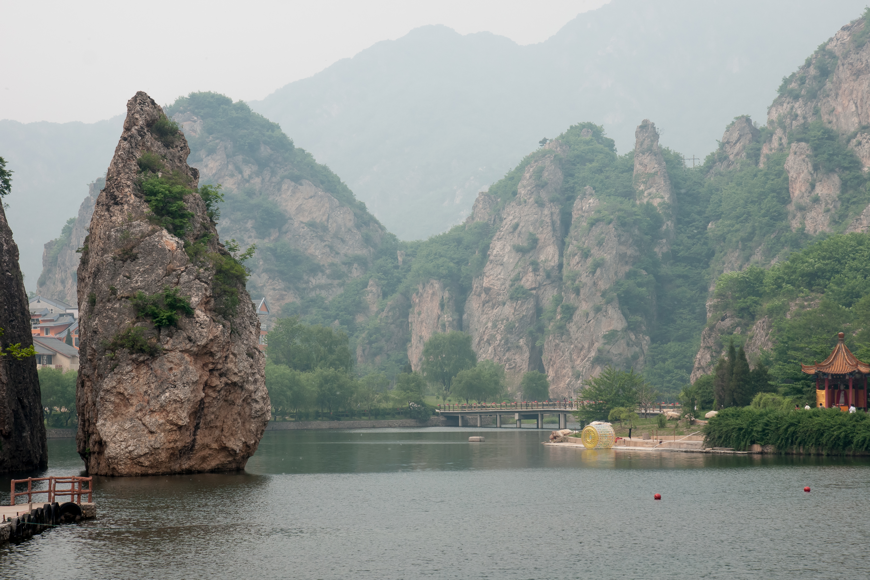 Bingyu Valley, Liaoning, China: One of the rocks that makes the atmosphere of that site